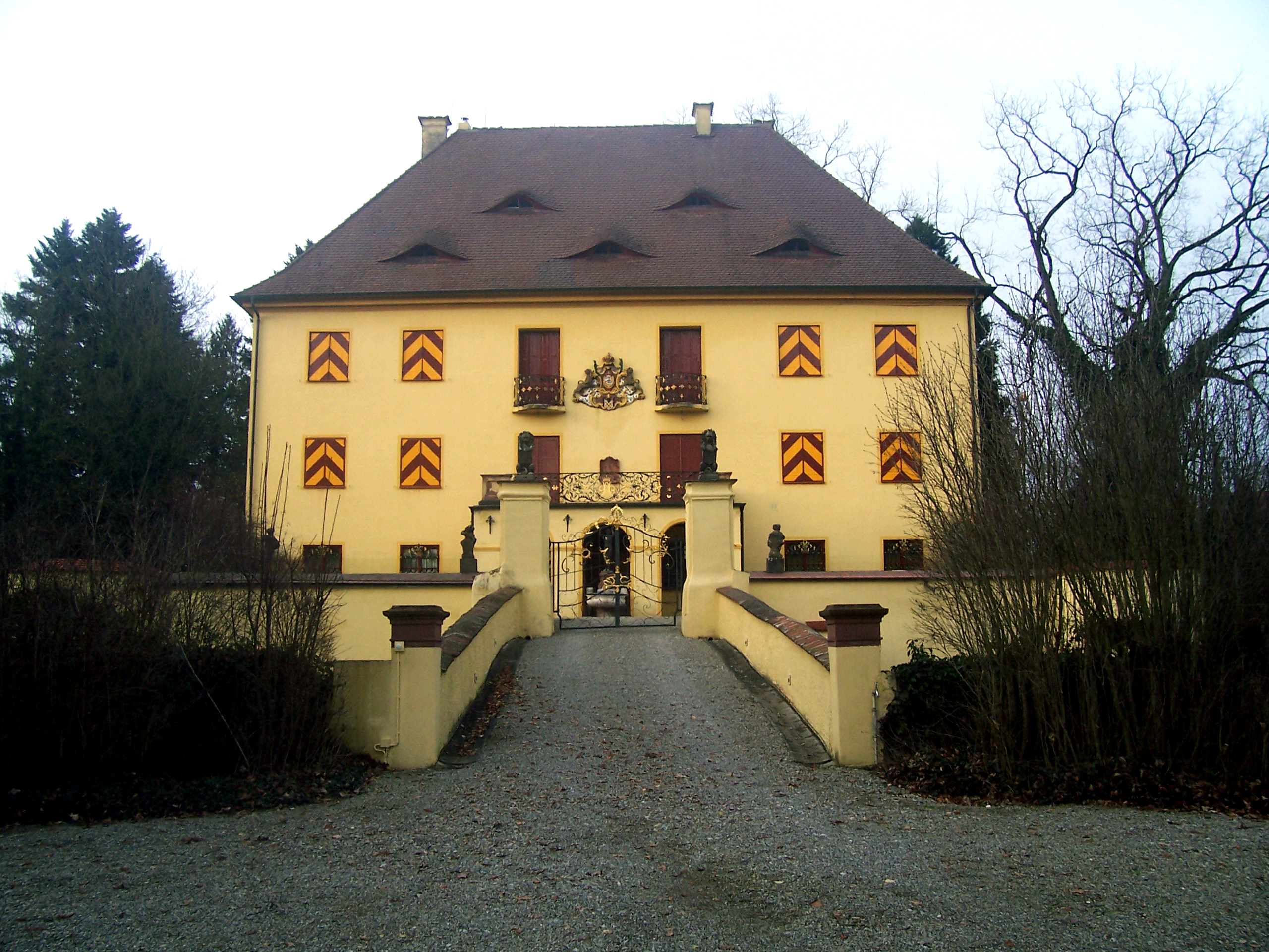 Schloß der Grafen von Moy